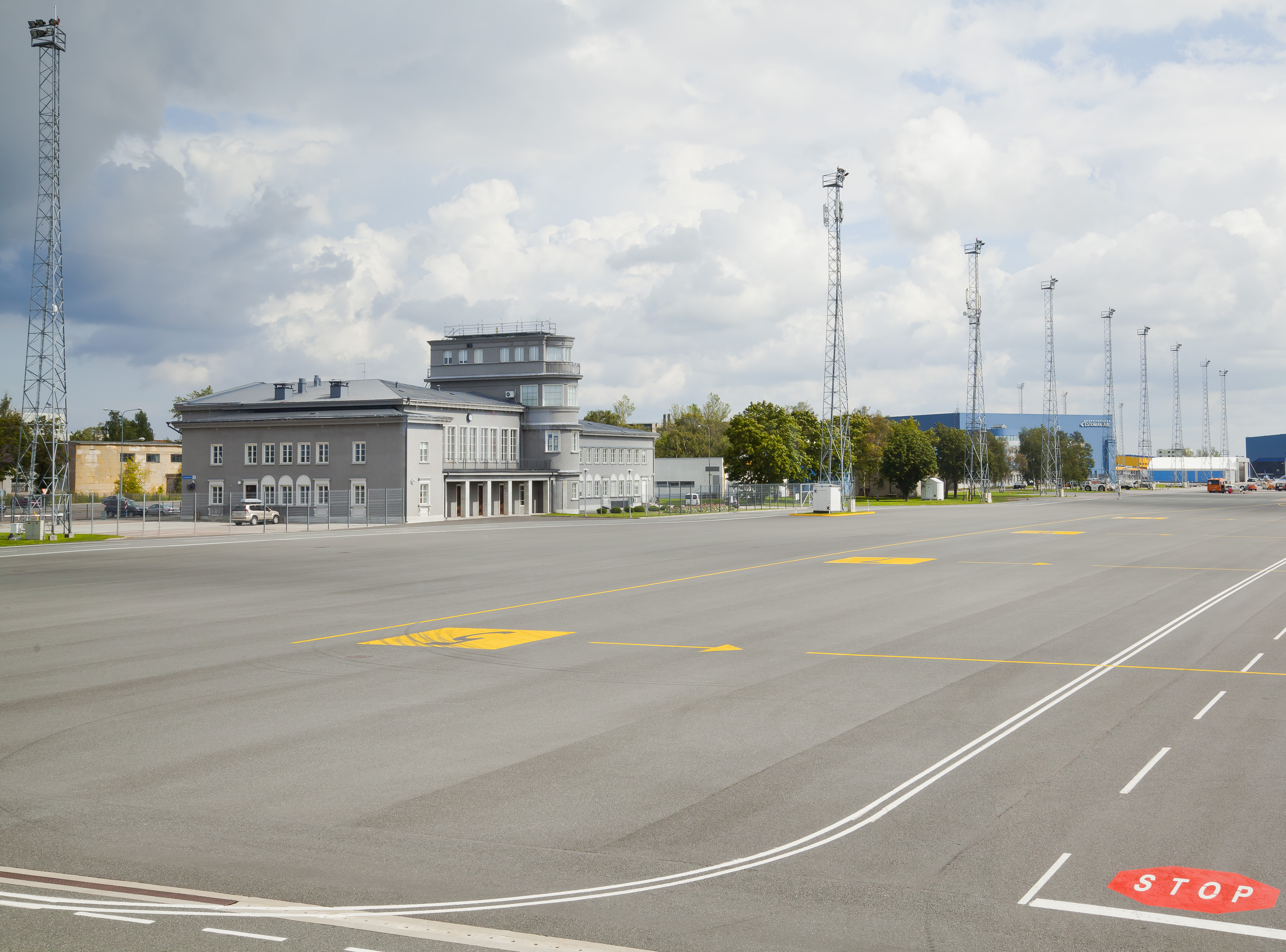 International Tallinn Airport, Estonia